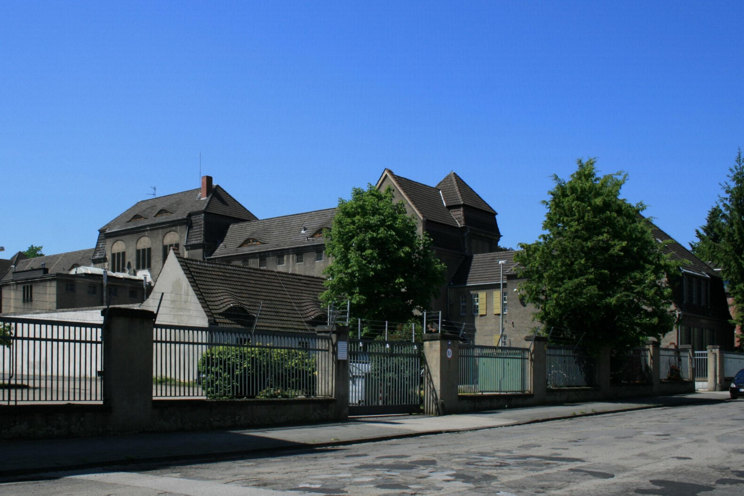 Cultural heritage monument No. Sch 005 in Mönchengladbach